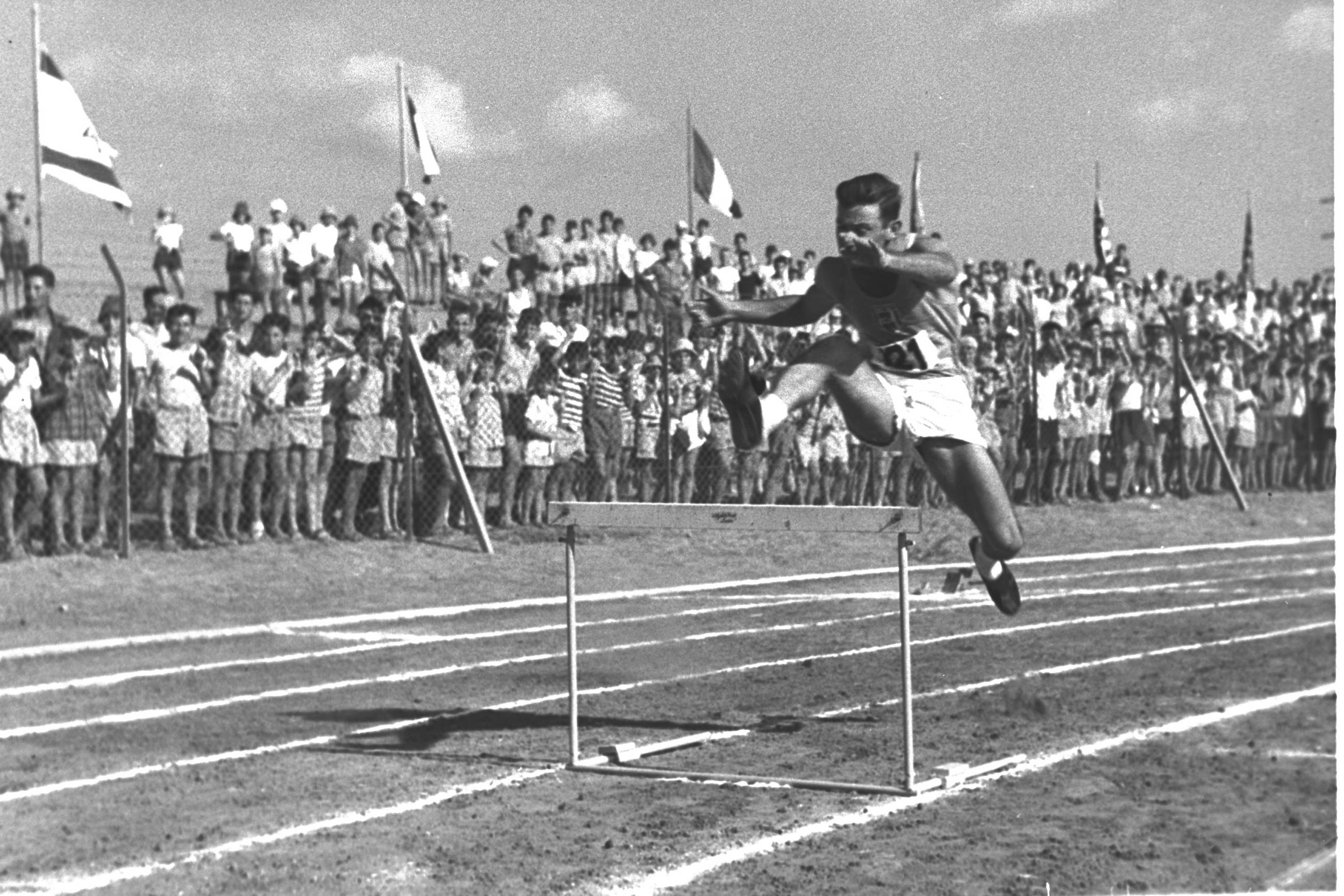 MOSHE HALPERN OF ISRAEL RUNNING THE 200 M HURDLE RACE AT THE 5TH MACCABIA GAMES HELD AT THE RAMAT GAN STADIUM.